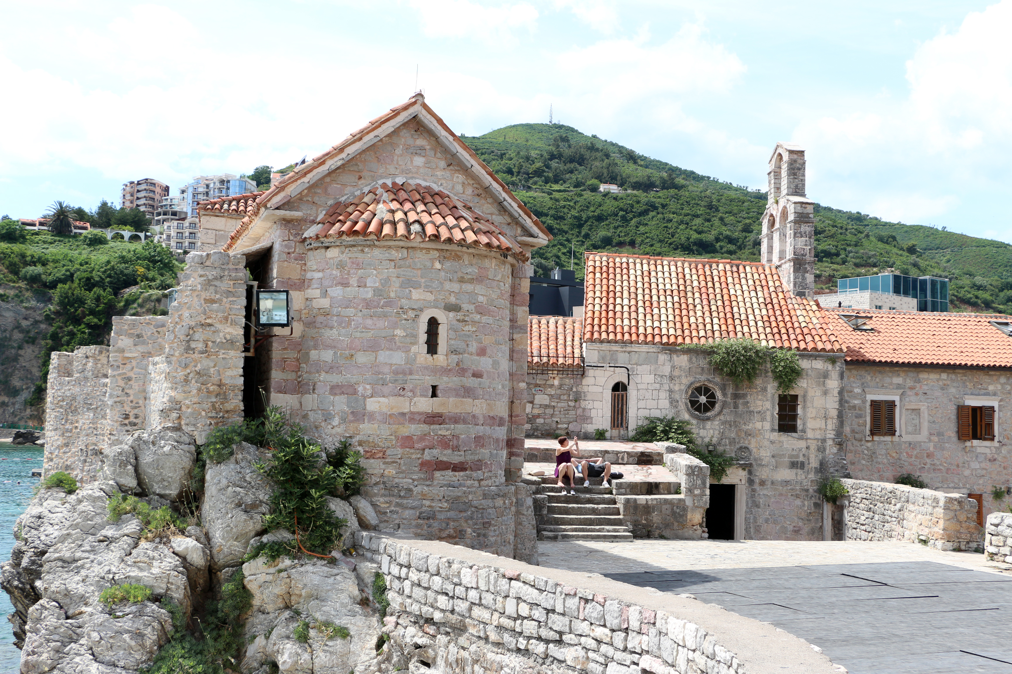 Church of St. Maria in Punta (Budva)